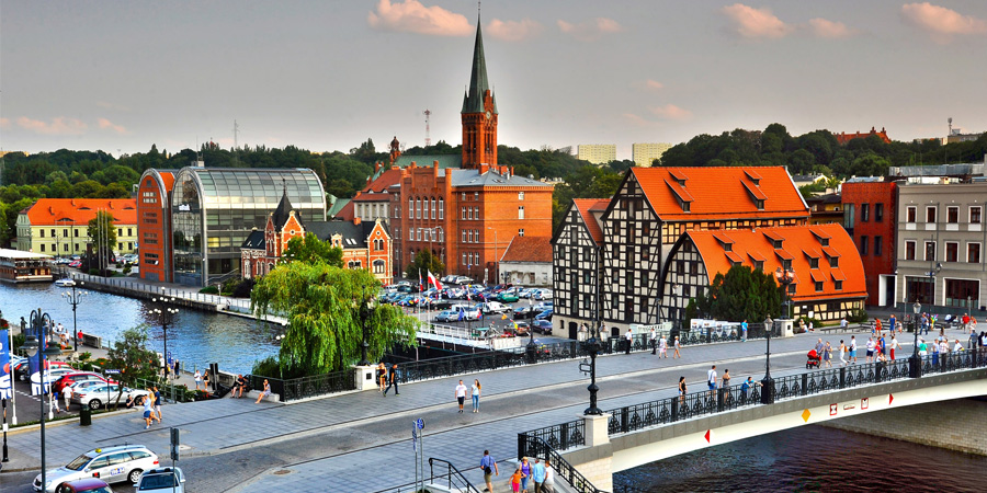 Bydgoszcz, zabytki, spichrze, brda